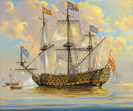 HMS Royal Charles